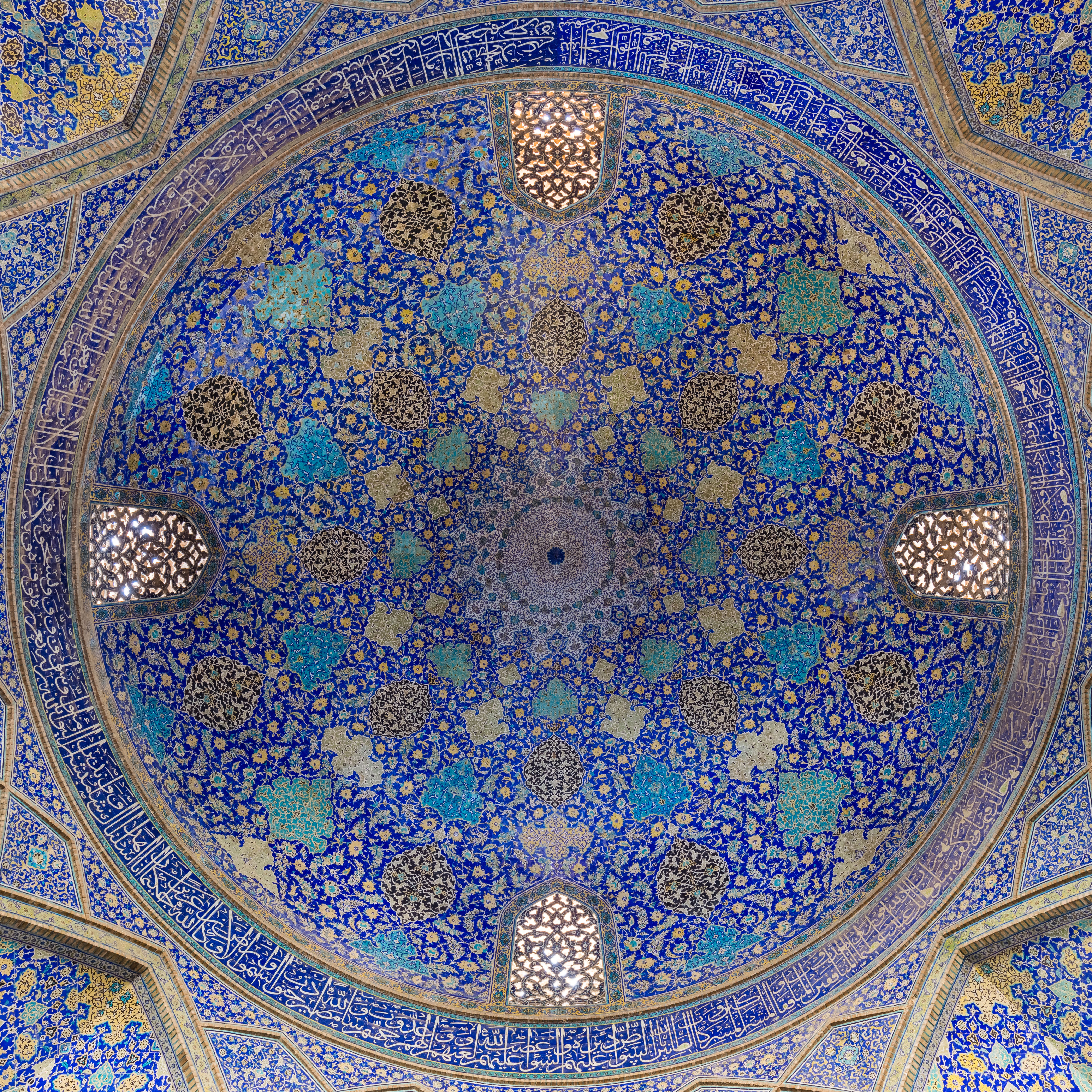 Interior view of one of the domes of the Shah Mosque, Isfahan, Iran. The mosque, a UNESCO World Heritage site started its construction in 1611, during the Safavid dynasty per order of Abbas I of Persia. It's considered one of the masterpieces of Persian architecture in the Islamic era.